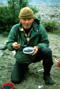 This photo is in the public domain, see licensing information at: relevant text:"Ownership Information presented on this website, unless otherwise indicated , is considered in the public domain. It may be distributed or copied as is permitted by the law."